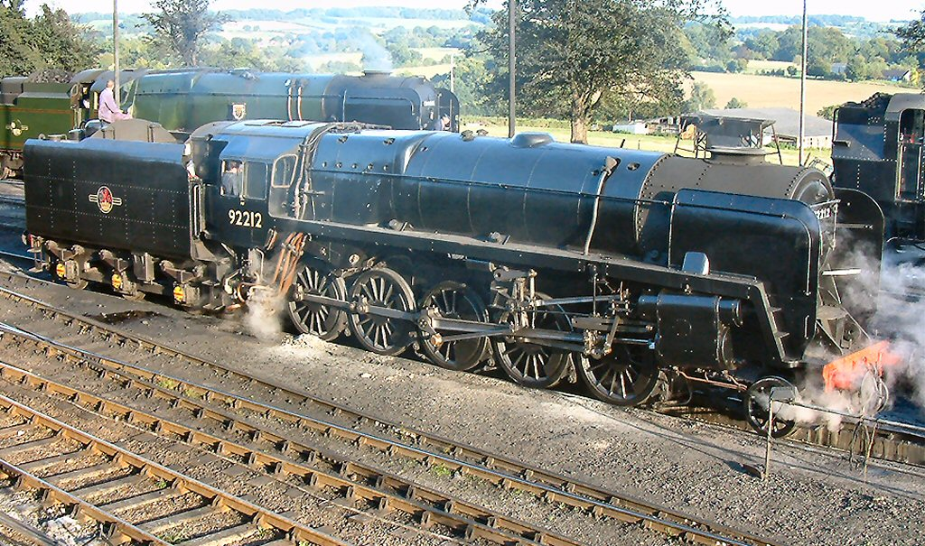 BR Standard 9F No 92212 at Ropley yard on the Mid Hants Railway September 2006; photo copyright Andy Buckley; (